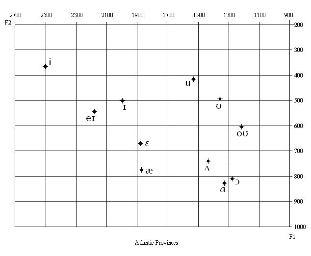 Based on Labov et al., "The Atlas of North American English"; averaged F1/F2 means for speakers from NS, NB, NL.